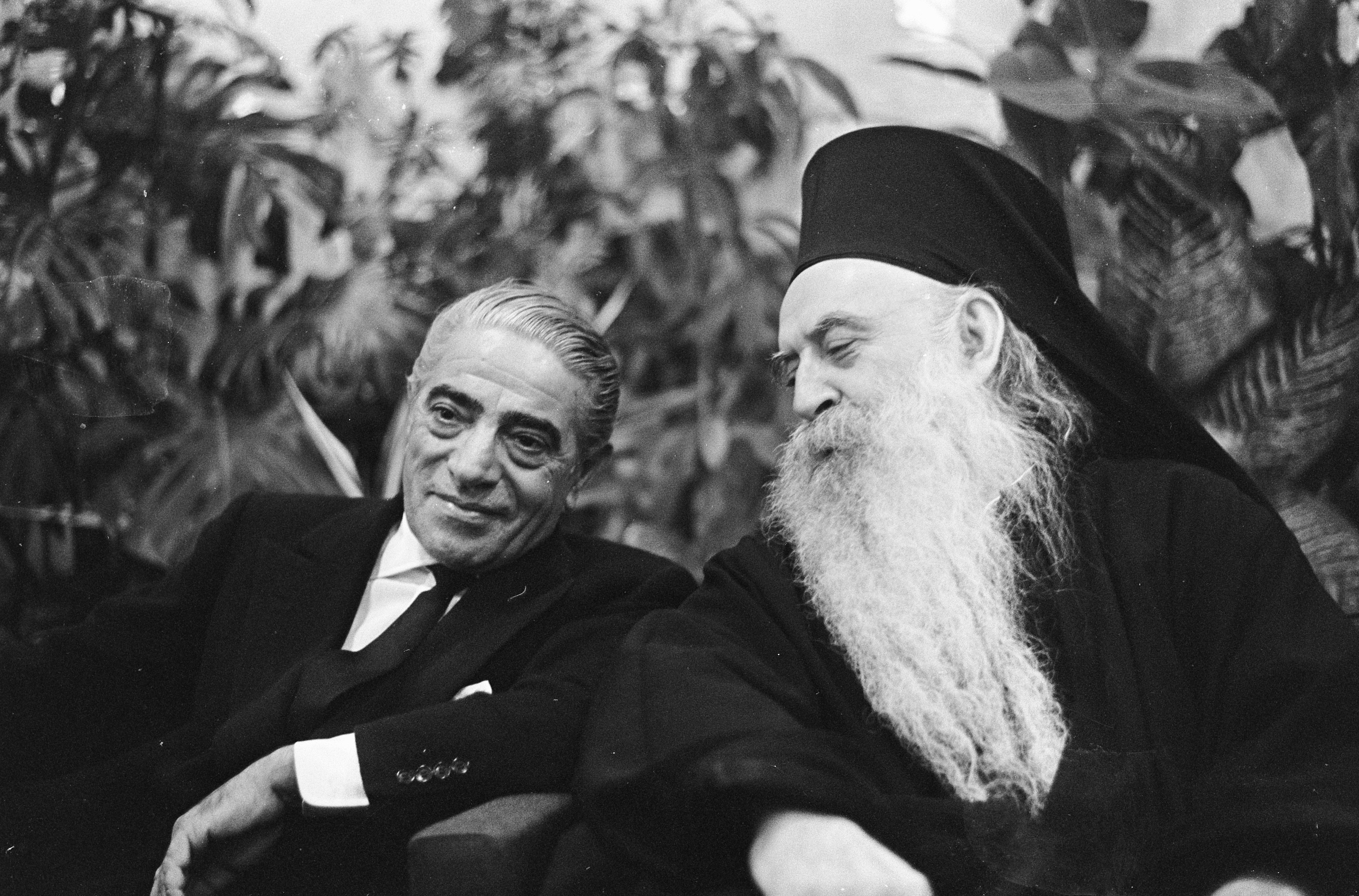 Arrival Patriarch Athenagoras at Schiphol with Greek shipowner Onassis. Onassis (left) talks with Patriarch Athenagoras in the VIP room at Schiphol